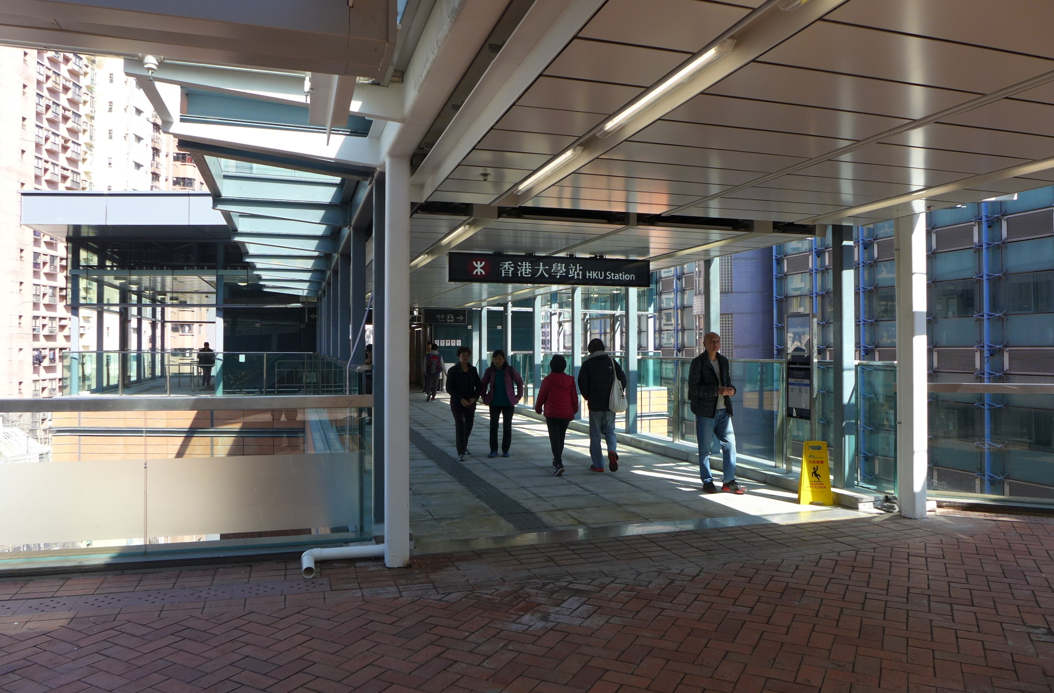 HKU Station Exit A2